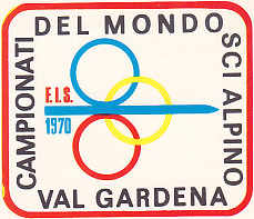 Logo of FIS alpine world ski championships 1970 in Val Gardena (Italy)